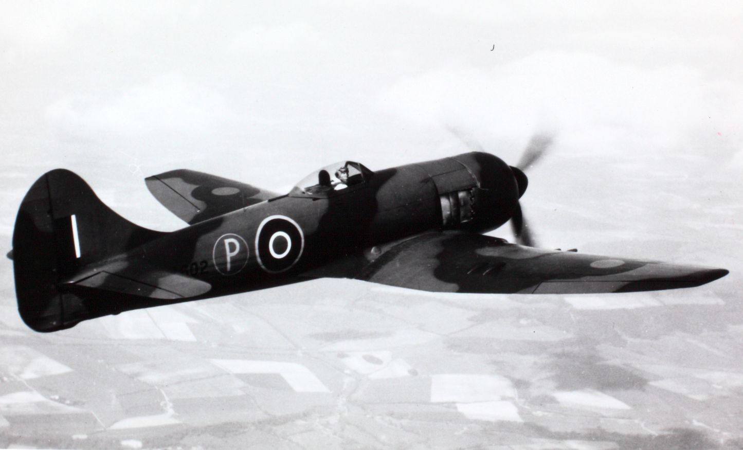 Image from the Charles Daniels Photo Collection album "British Aircraft." SOURCE INSTITUTION: San Diego Air and Space Museum Archive